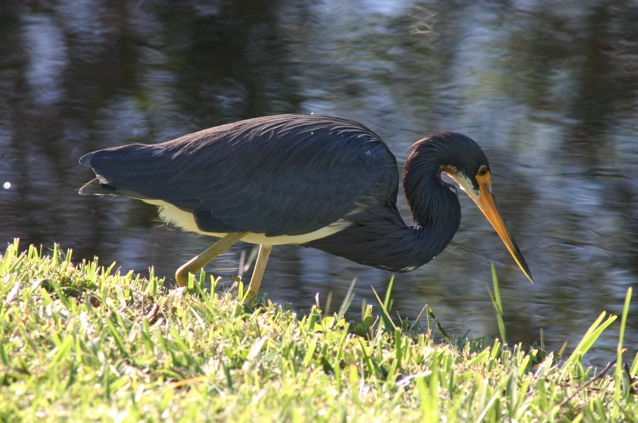 An adult Tricolored Heron Egretta tricolor (nonbreeding plumage), Shark Valley, Everglades National Park, Florida, USA